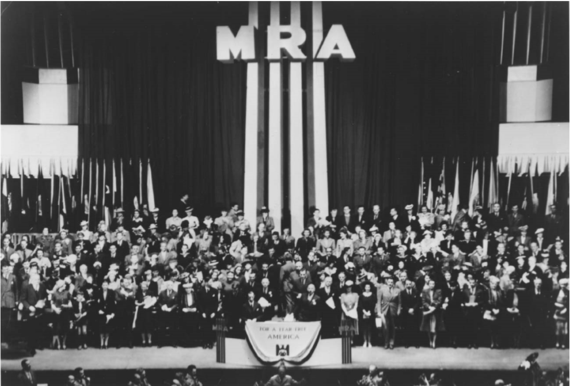 View of the Madison Square Garden stage on the day of Moral Re-Armament launch in New-York